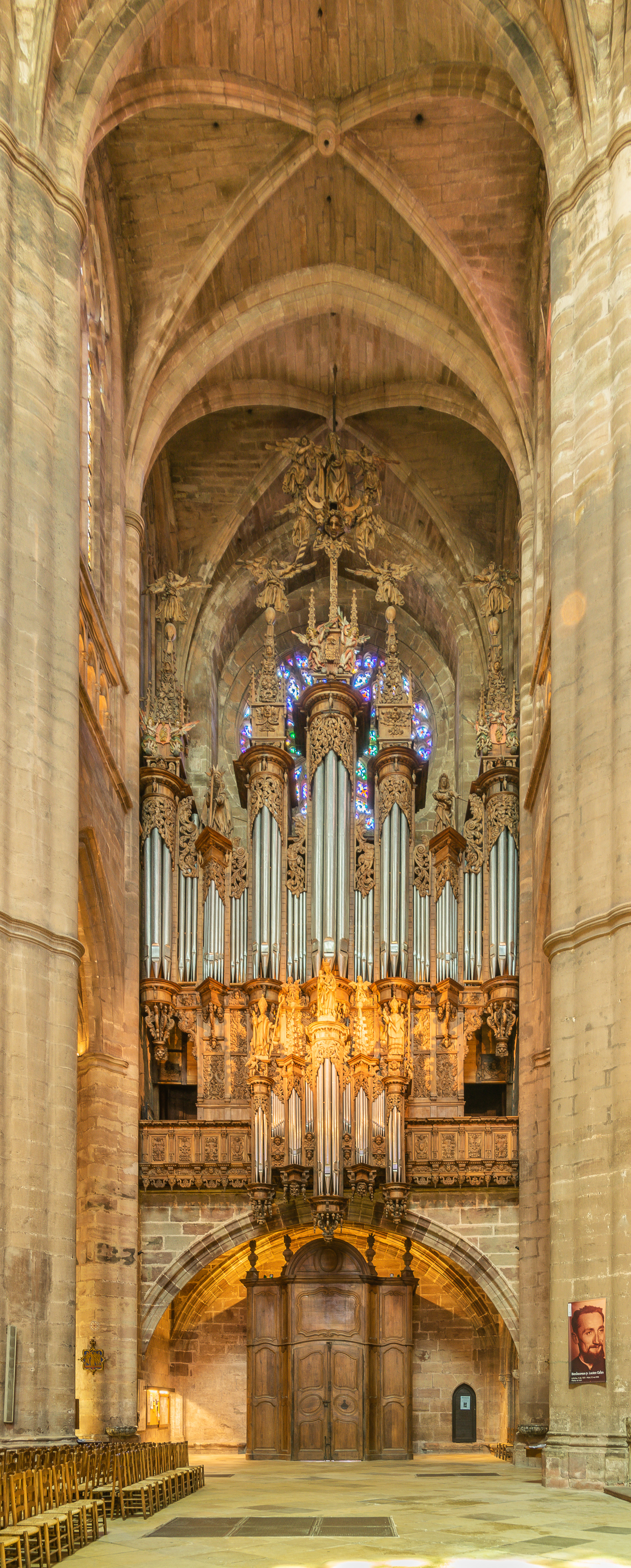 Organ in the Cathedral of Our Lady of the Assumption of Rodez, Aveyron, France .